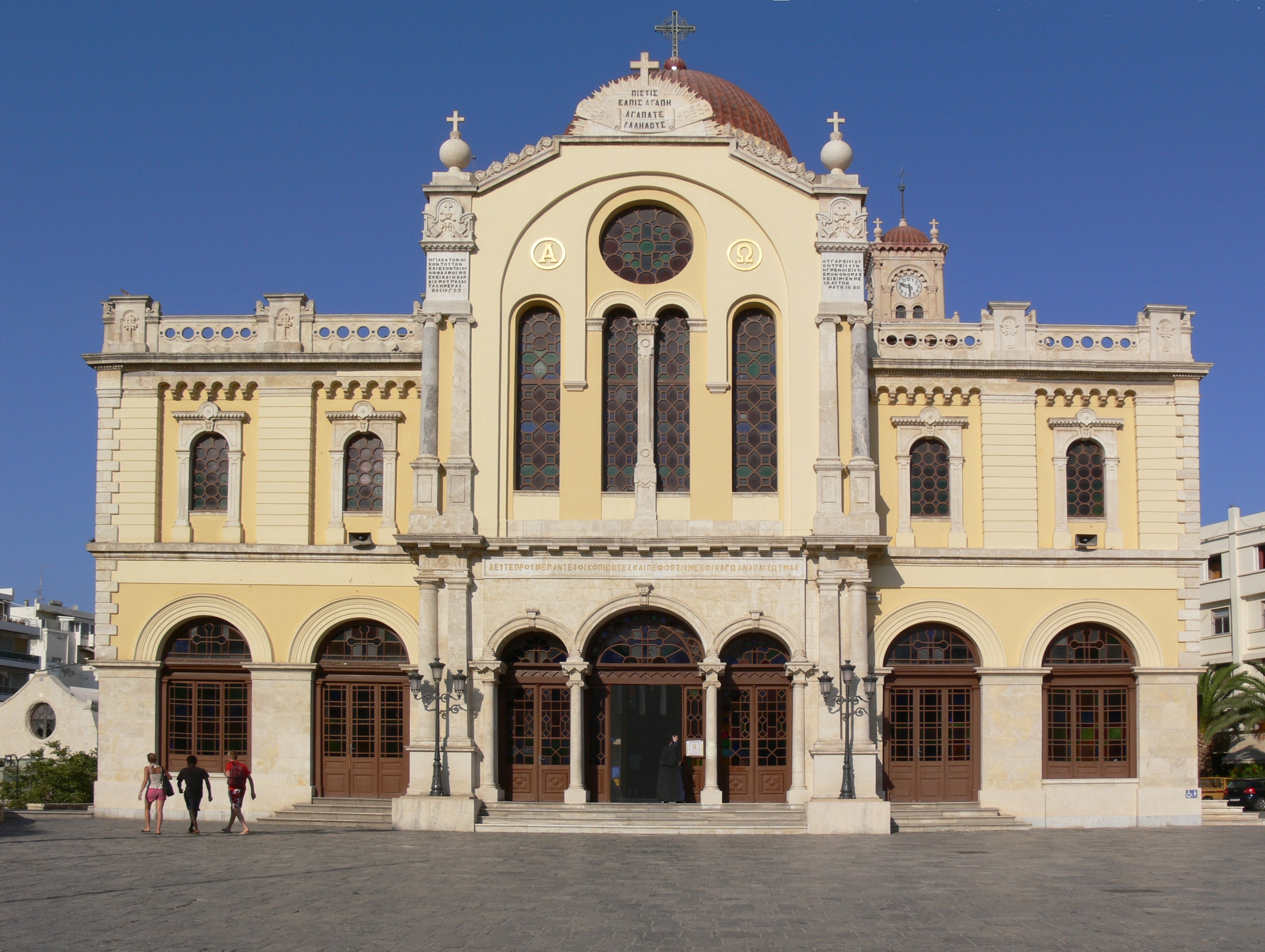 Heraklion (Crete, Greece): catedral church